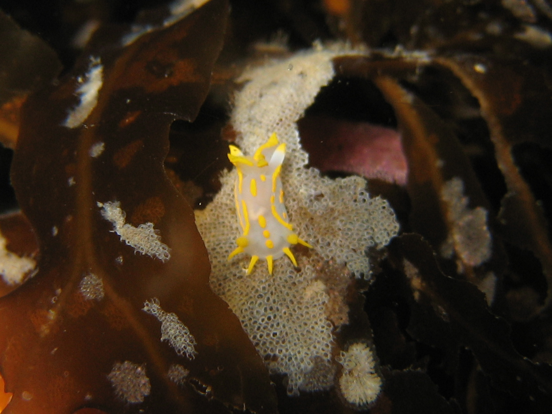 Polycera quadrilineata eating Membranipora membranacea in Carantec.